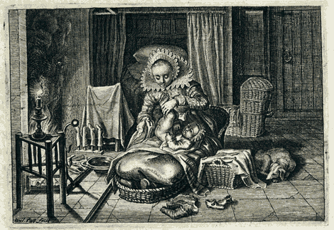 Emblemata III, copper engraving by Adriaen Pietersz. van de Venne